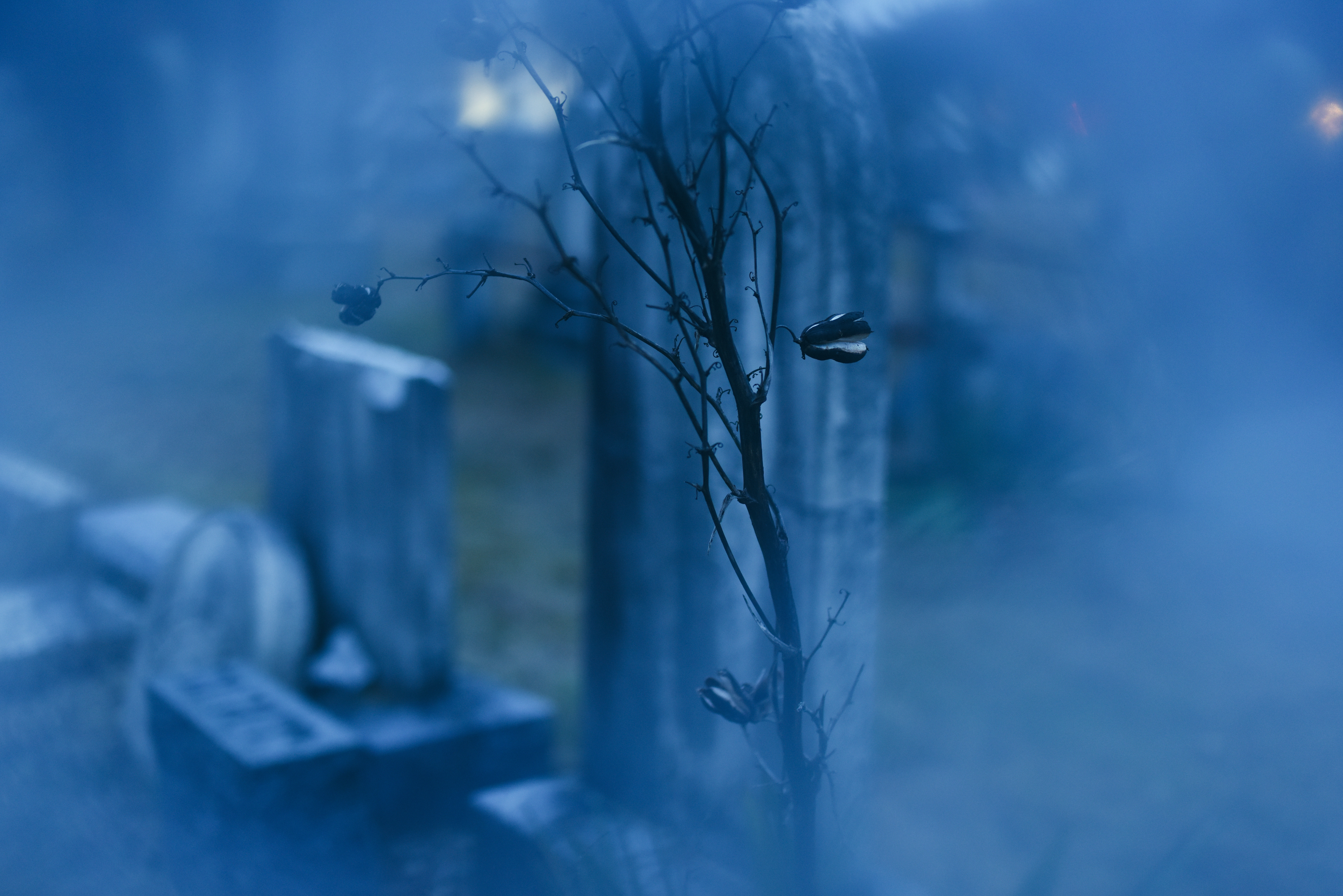 Union Graveyard, home of the White Lady legend, in Easton, CT.